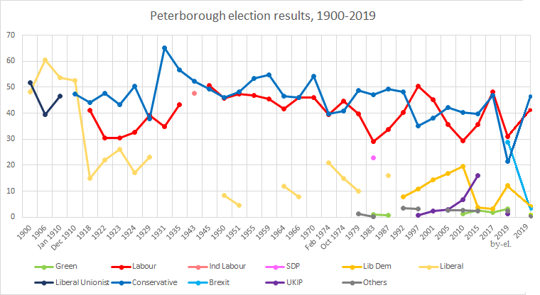 Peterborough constituency history